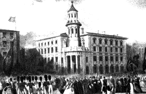 Coal Exchange, London. Courtesy of